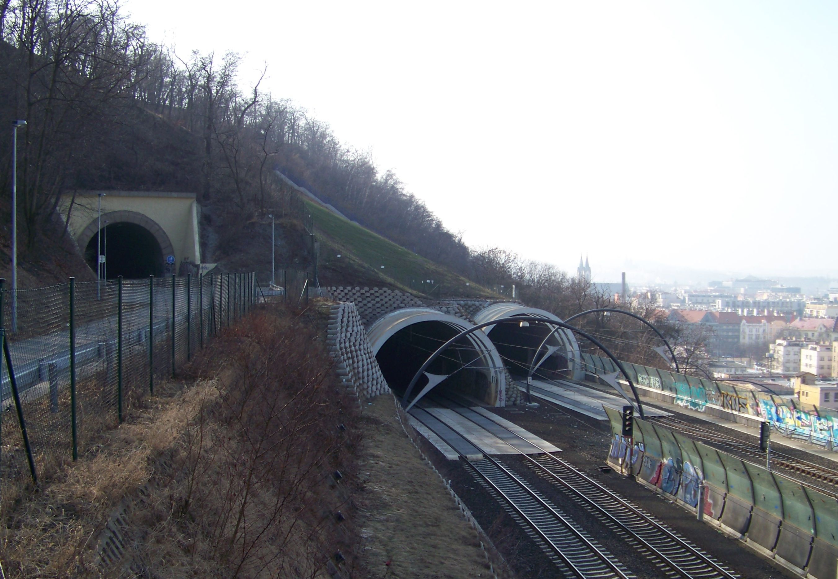 Prague-Žižkov, the Czech Republic. The old and the new railway tunnels under the Vítkov Hill. - Google Maps - Google Earth